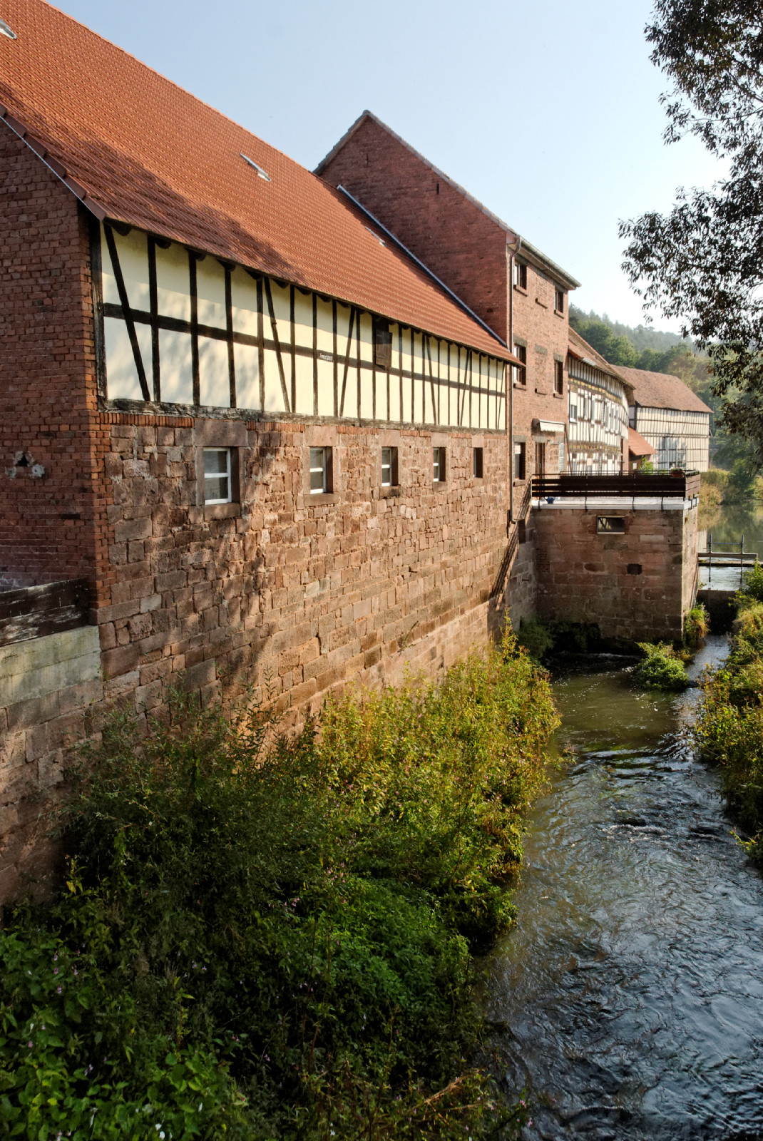 Hainmühle in Kirchhain-Betziesdorf, Germany